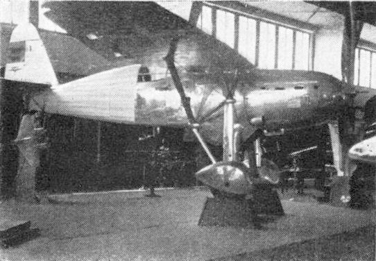 Ikarus IK-2 photo from L'Aerophile June 1938